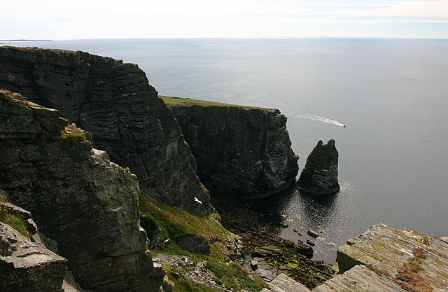 The Chasms and the Sugarloaf, Manx National Heritage Site, Isle of Man.